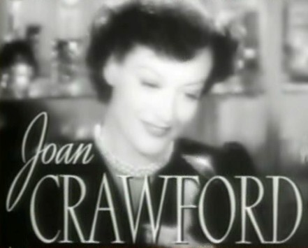 Cropped screenshot of Joan Crawford from the trailer for the film The Women.